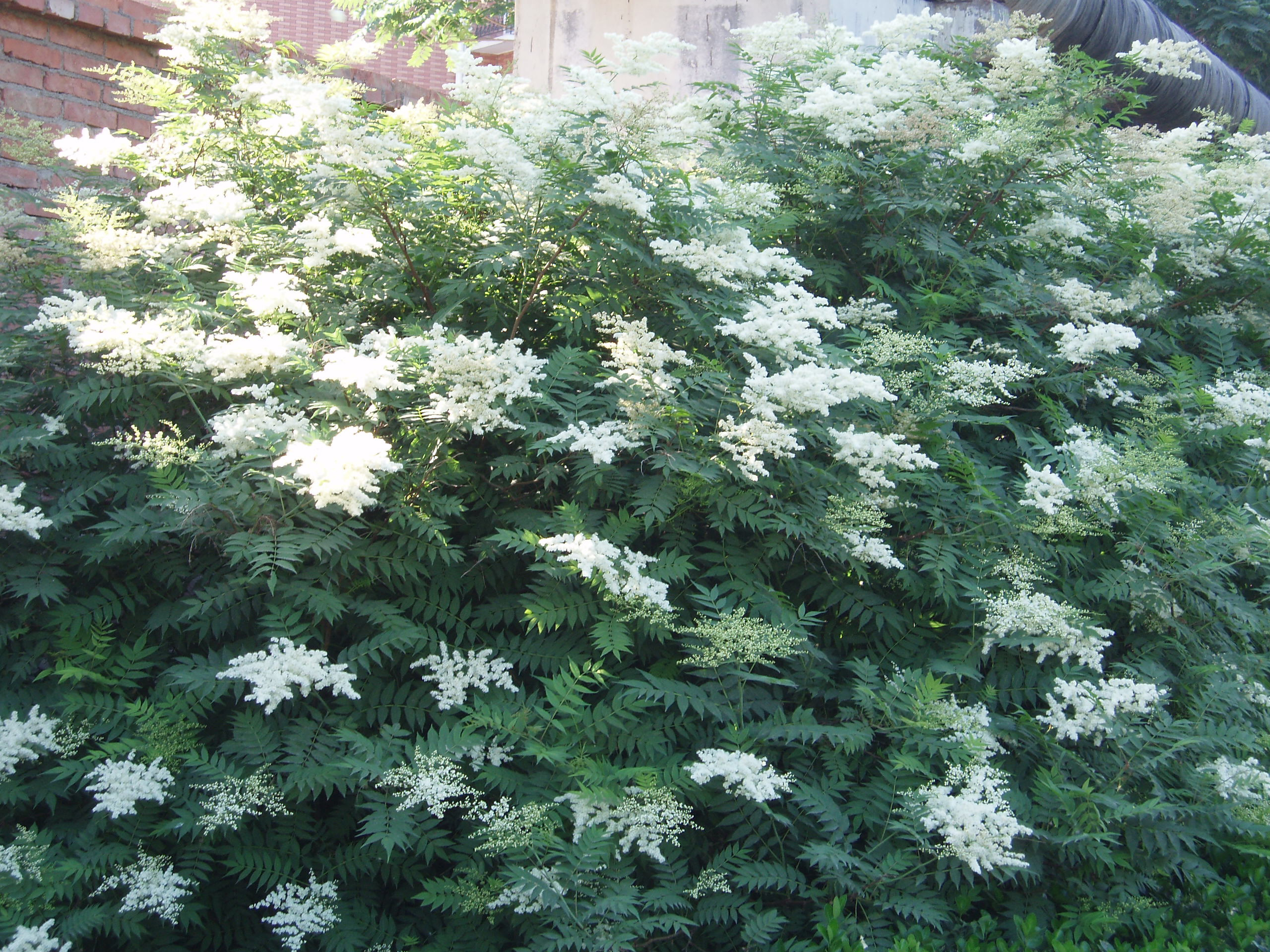 Ural false spirea flowers